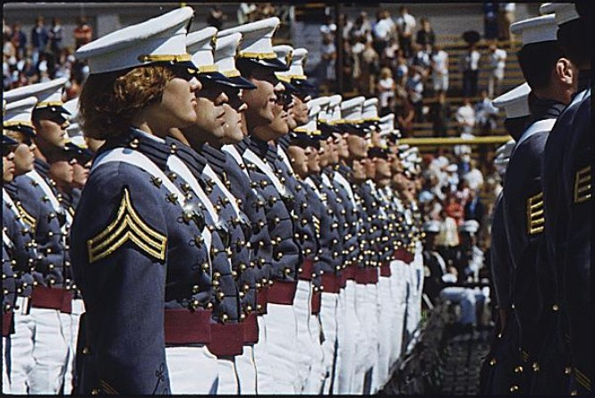 Photo of the Graduating Class of 1980, West Point - the first class to admit women